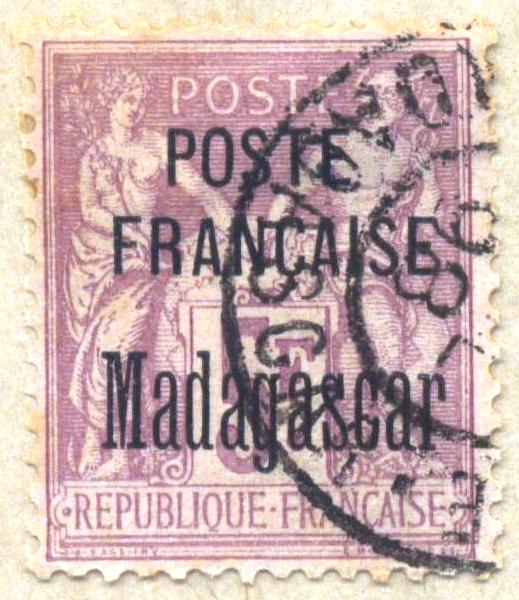 5 Francs "Paix et Commerce" stamp of the French Protectorate Madagascar (Yvert #22)